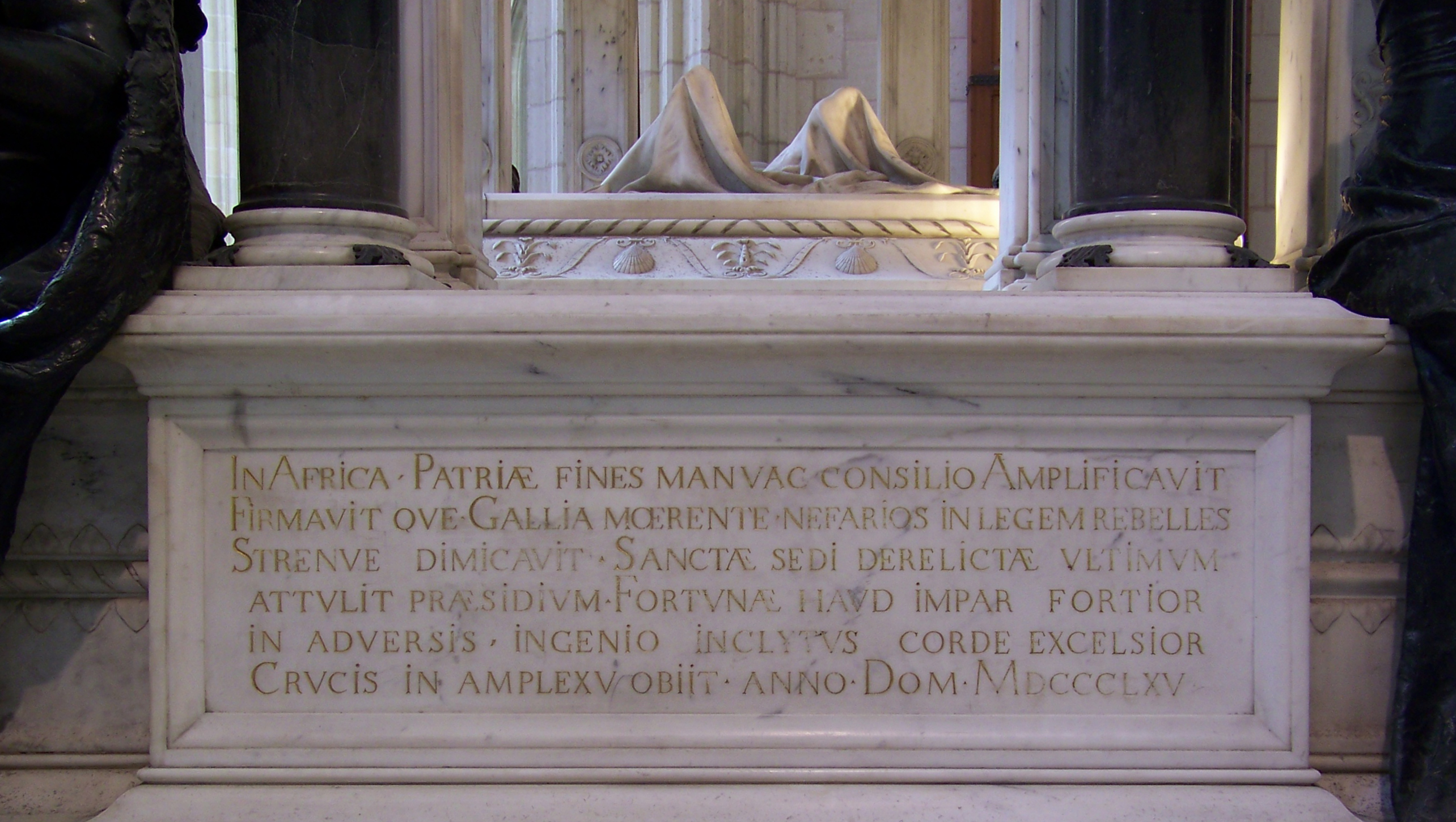 Epitaph of the general de Lamoricière, eastern face of his cenotaph in the Cathédrale Saint-Pierre et Saint-Paul de Nantes (northern transept).